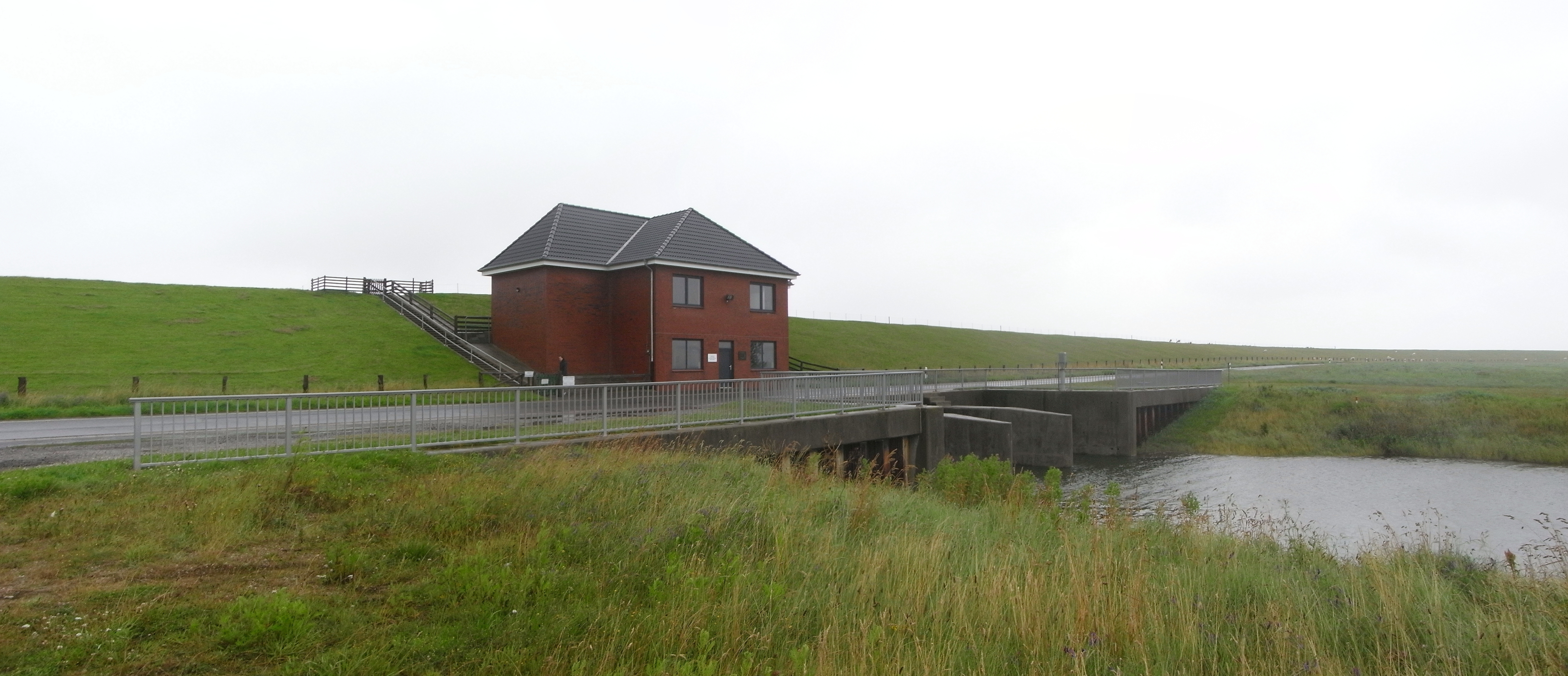 Floodgate at Everschop on Eiderstedt peninsula in North Sea in Schleswig-Holstein, Germany